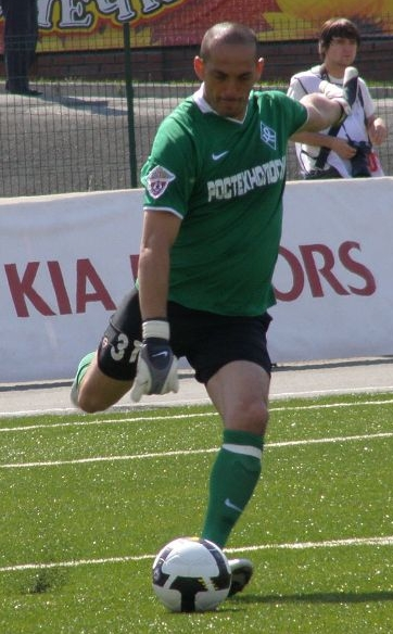 Eduardo Lobos in action for FC Krylia Sovetov